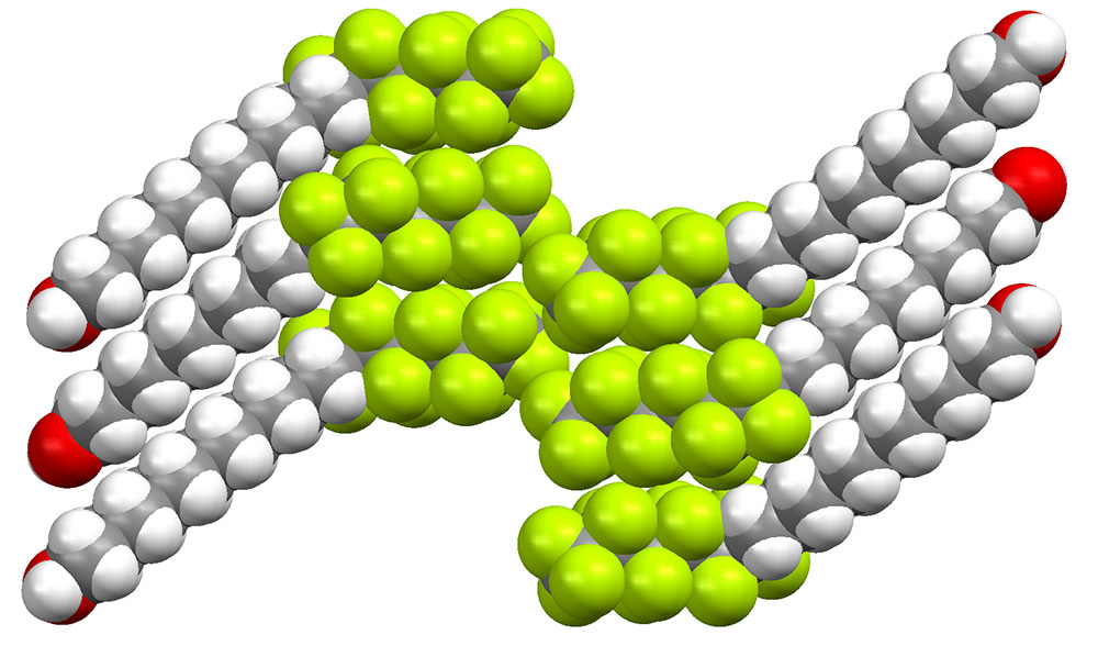 Illustration of the packing of molecules in the crystal structure of a molecule containing aliphatic fluorocarbon and aliphatic hydrocarbon segments. The picture was created by user TBChem and uploaded on 8/15/2007. The picture was created using Mercury from Cambridge Structural Database entry TULQOG. The literature reference for the compound is J. Lapasset, J. Moret, M. Melas, A. Collet, M. Viguier, H. Blancou, Z. Kristallogr. 1996, 211, 945. Atoms are colored according to element type: carbon (grey), fluorine (green), oxygen (red), hydrogen (white).